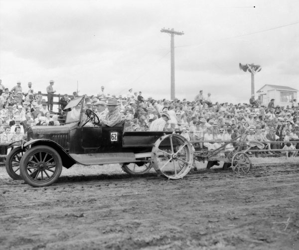 Ford Model T converted for farm use